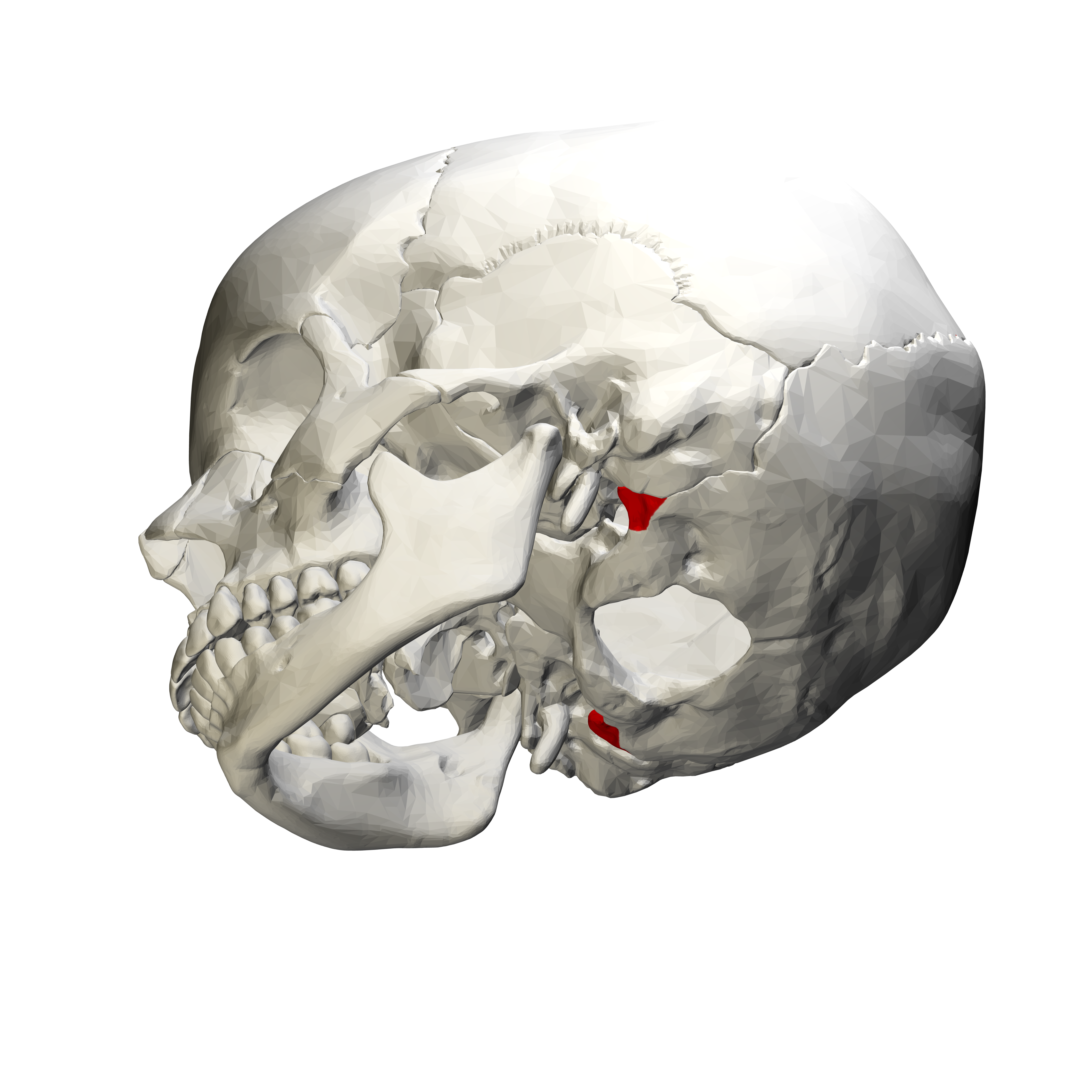 Jugular process (shown in red)